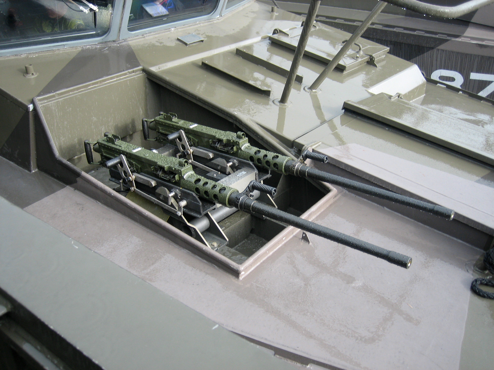 Two of Combat Boat 90's .50 cal heavy machine guns seen here positioned in front of the helmsman's position.